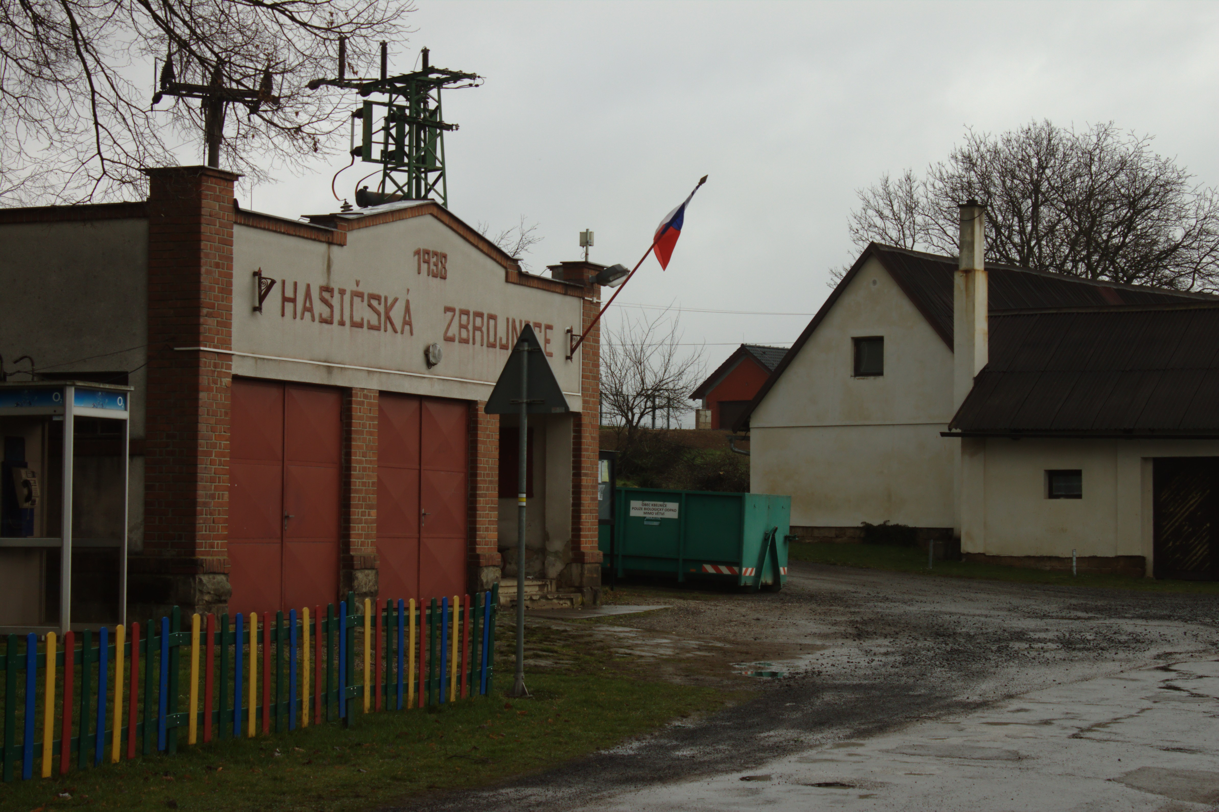 Kbelnice village north from Jičín, Hradec Králové Region, CZ